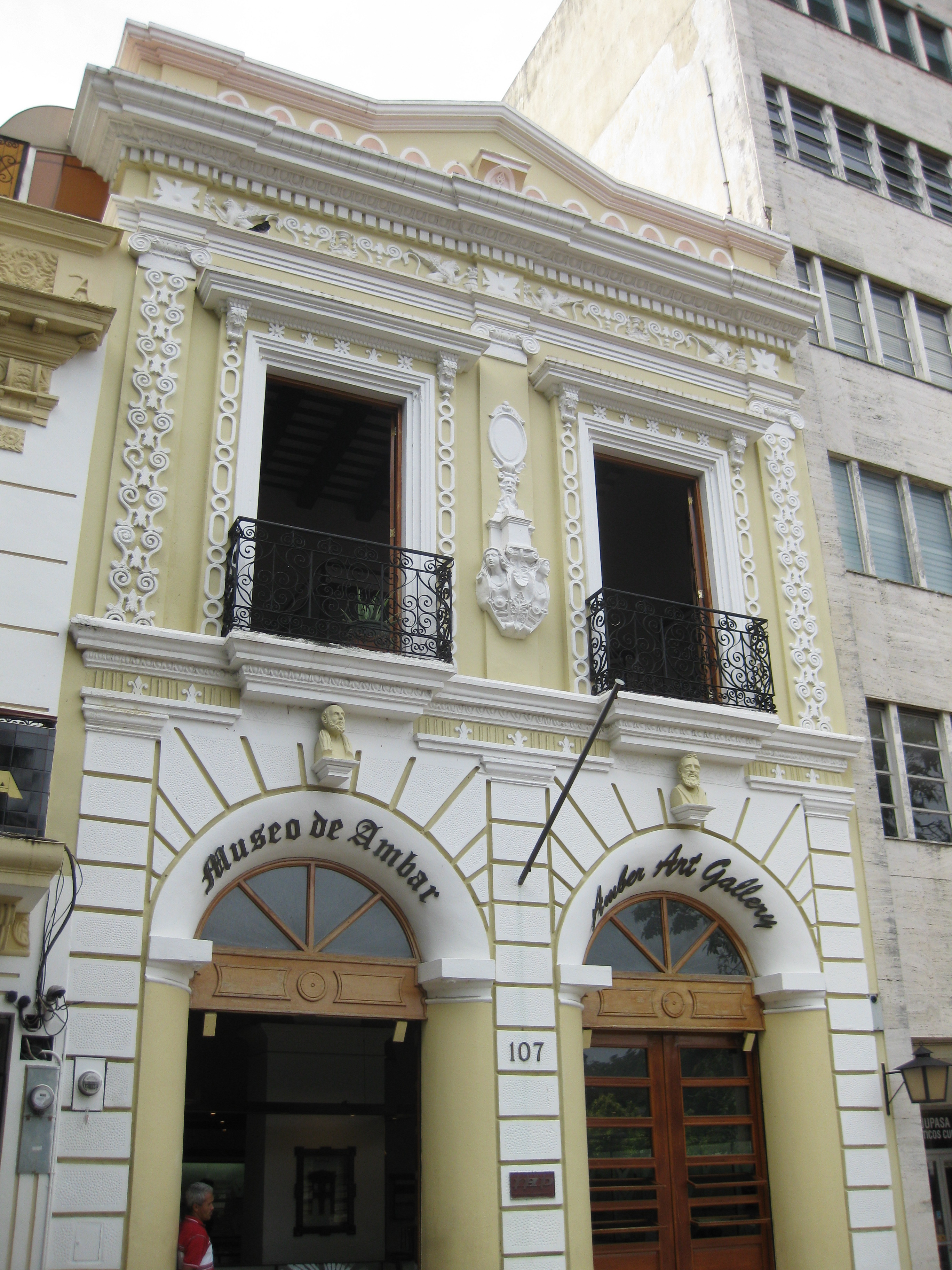 Amber Museum, Santo Domingo, Dominican Republic